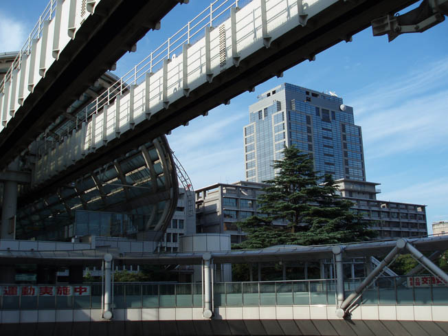 Chiba Prefectural offices with Chiba monorail in foreground.